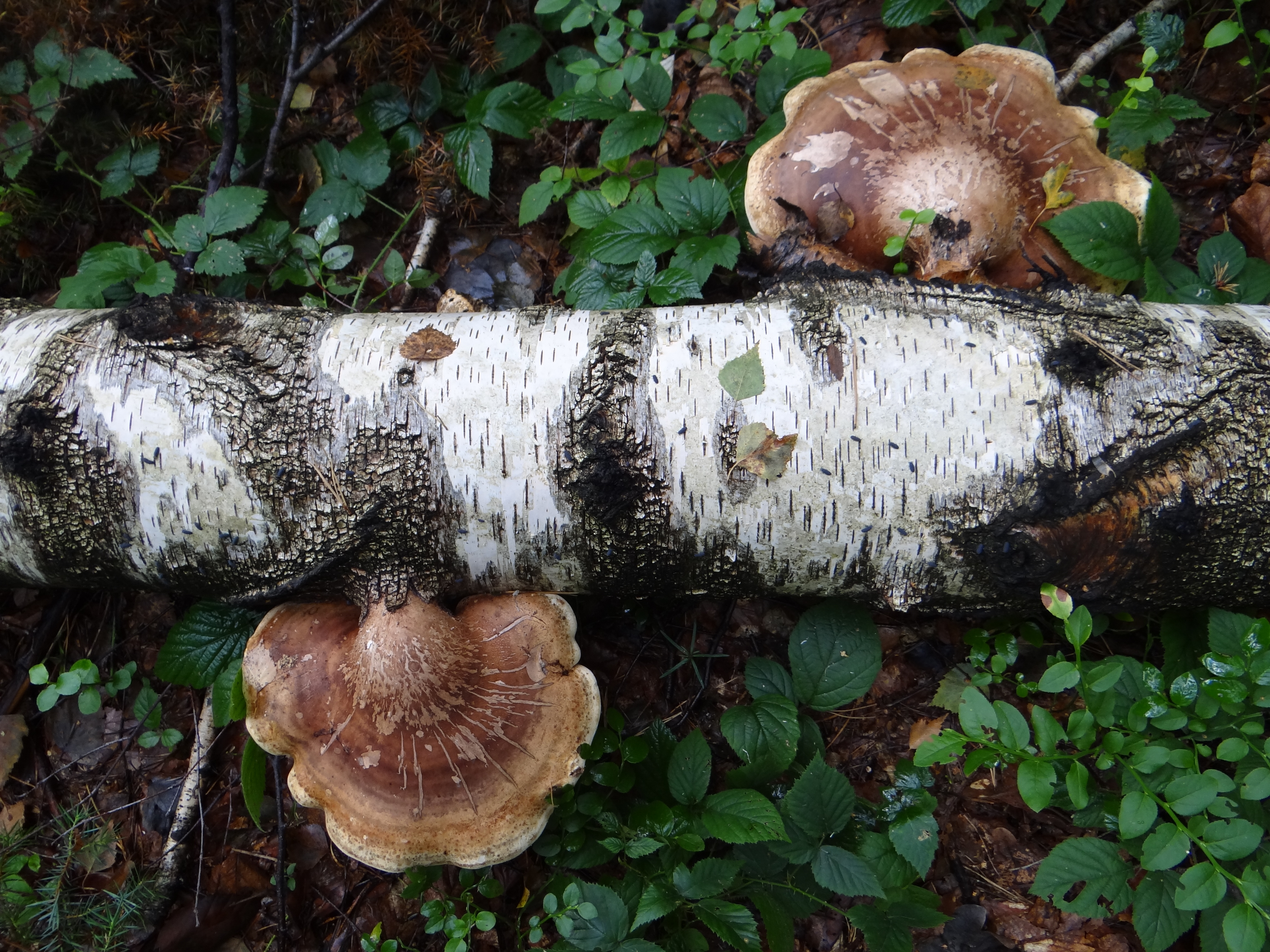 Piptoporus betulinus (location: Poland, Gorce, Gorc)